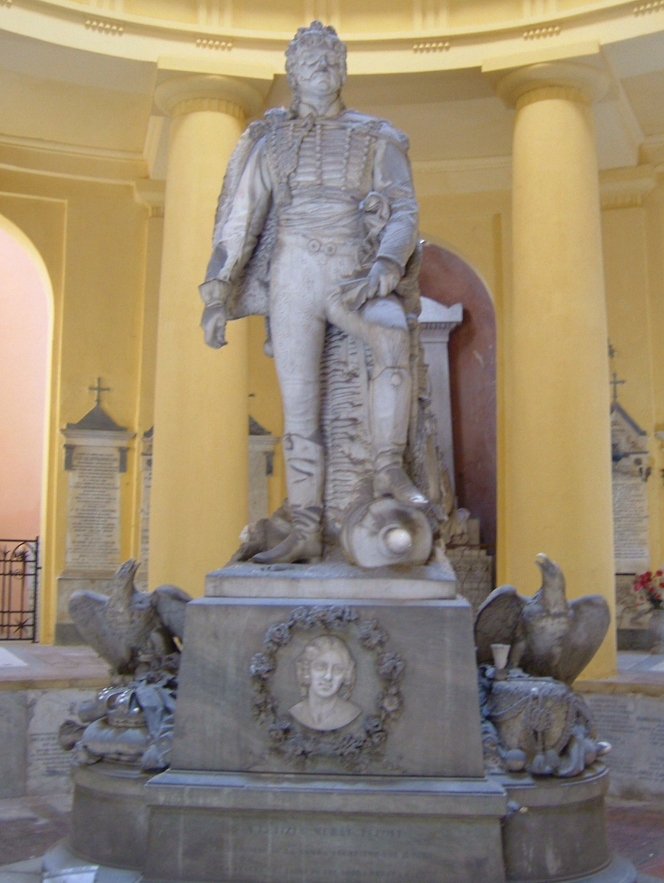 Statue of Johachim Murat on the grave of his daughter Letizia Murat (portrayed in basement of the monument)